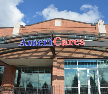 Staff Photo of AmeriCares building